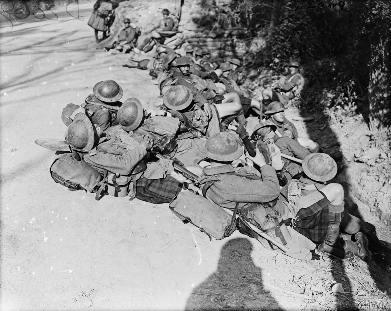 The Battle of Passchendaele, July-november 1917 Battle of the Menin Road Ridge. Troops of the Highland Light Infantry resting by the roadside on the way up to attack, 24 September 1917.